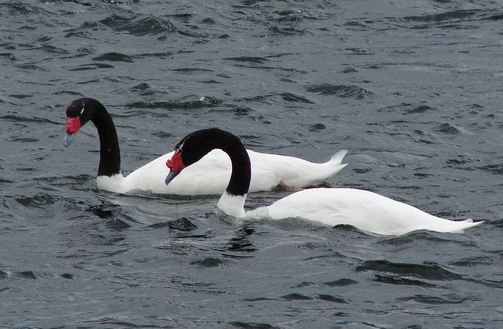 A pair of Black-necked Swans in Hornopirén, Chile in February 2010.